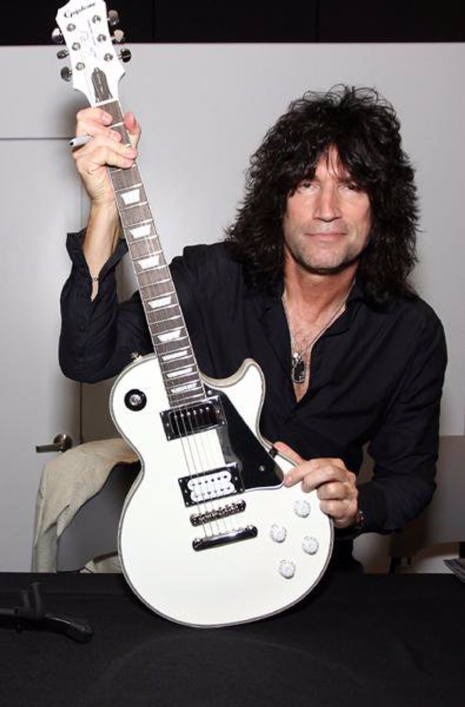 Tommy Thayer holding his White Lightning signature guitar